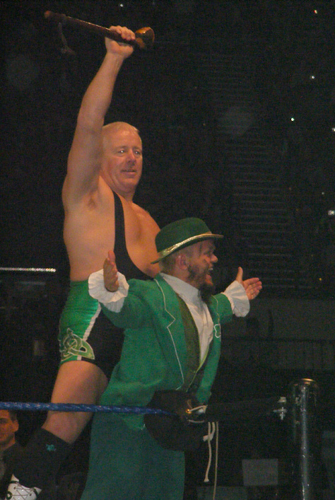 Finlay & Hornswoggle @ Adelaide, South Australia 'Smackdown/ECW' house show on the 14th of June '08